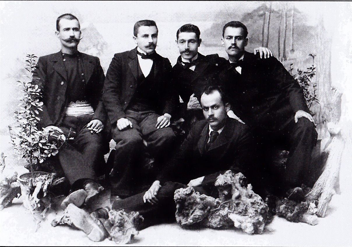 bulgarian revolutionaries from IMARO, who were inprisoned in Kurshumli han in 1902-1903: Antim Katlanov (front), iliya Keremitchiev, Dimitar Nichov, Vladimir Karamfilov and Mihail Angelov (from left to right)